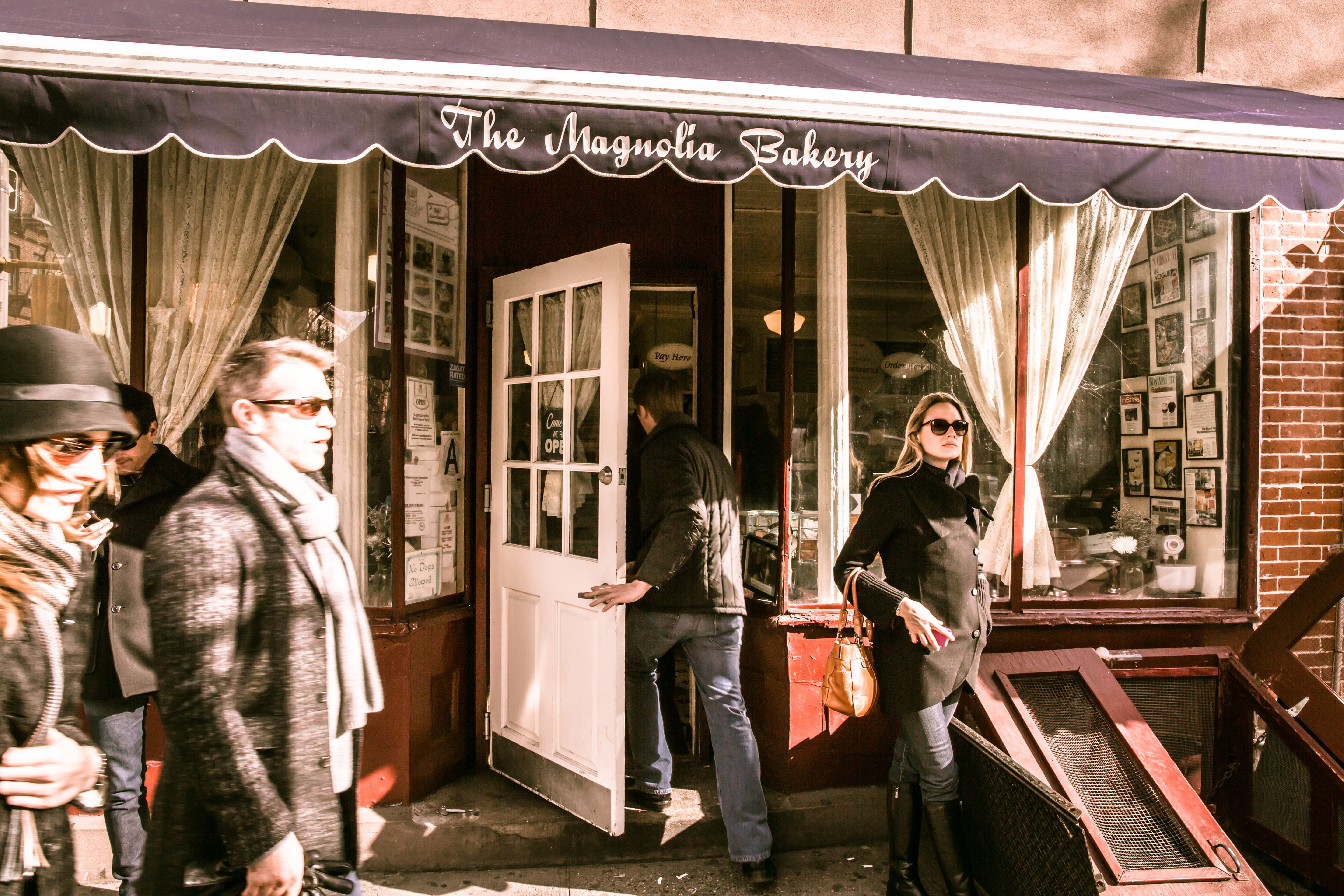 Magnolia Bakery, 401 Bleecker Street, New York, NY 10014, USA - Jan 2013